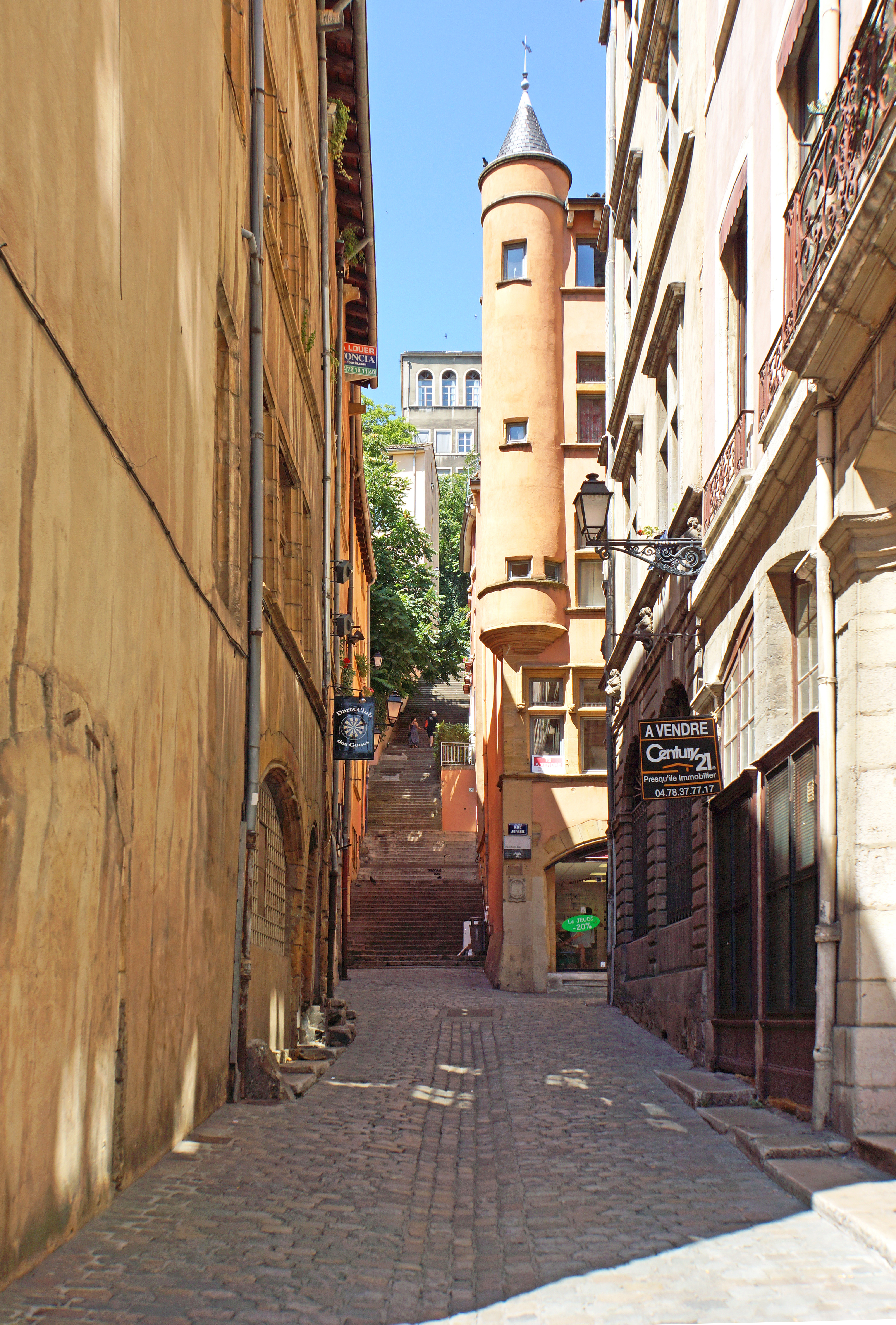 PLEASE, NO invitations or self promotions, THEY WILL BE DELETED. My photos are FREE to use, just give me credit and it would be nice if you let me know, thanks. The side street that runs beside the Temple du Change as I was walking around. You can buy the place on the right or play darts on the left.....